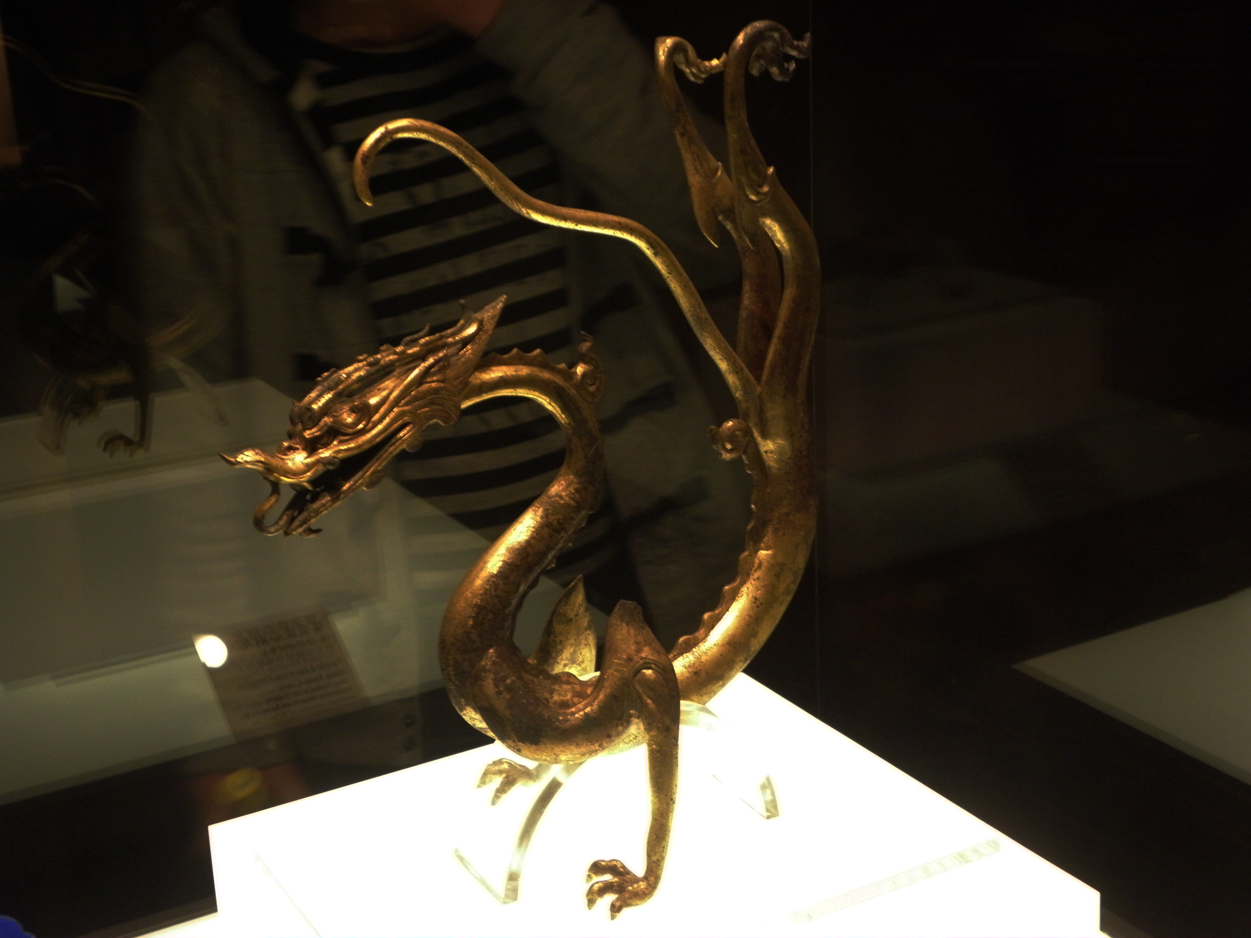 iron core with golden cover copper dragon，Tang dynasty.